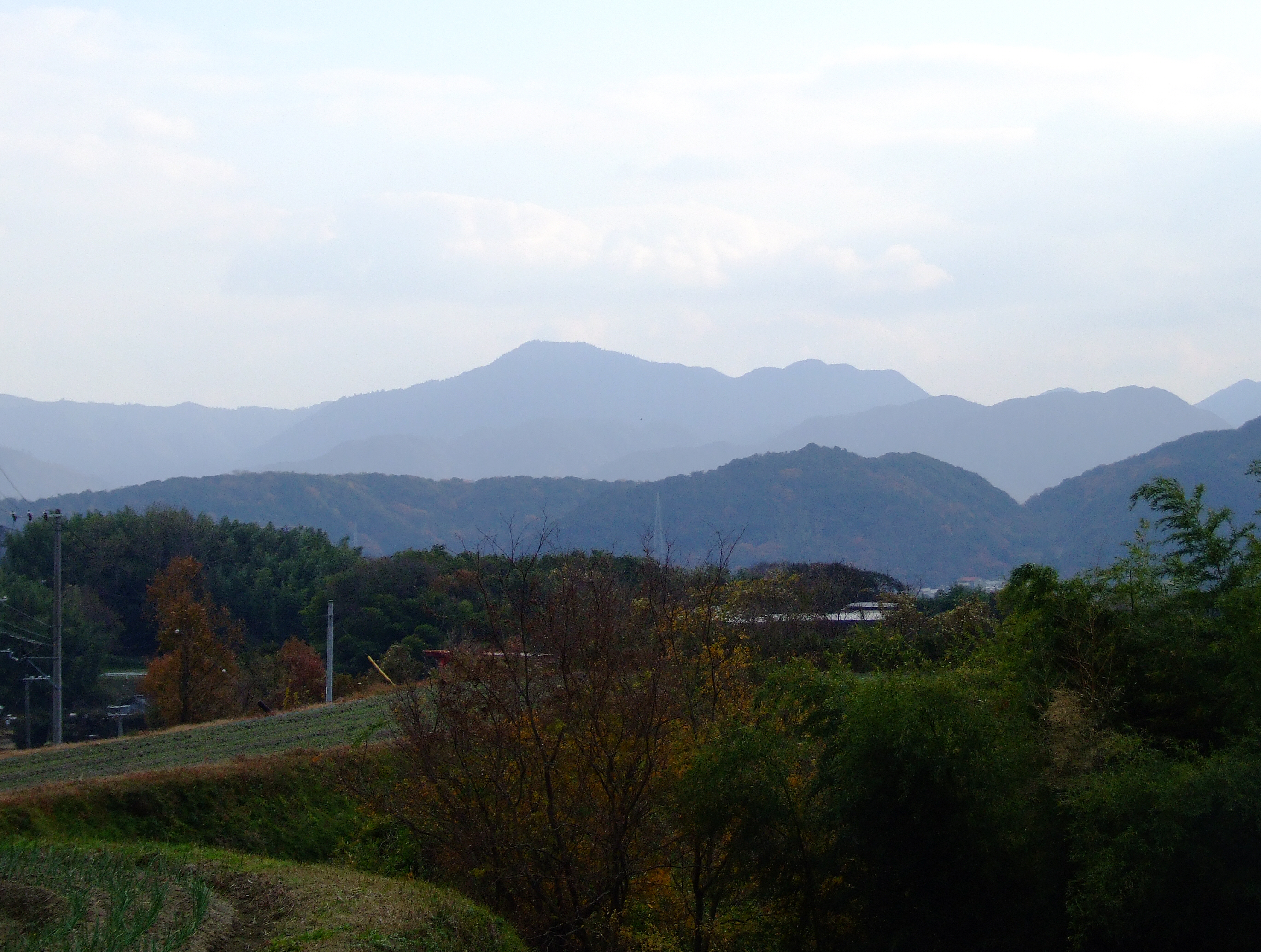 Mount Kashiwara (Kashiwara-yama) on the Awaji Island in Hyogo Prefecture, Japan